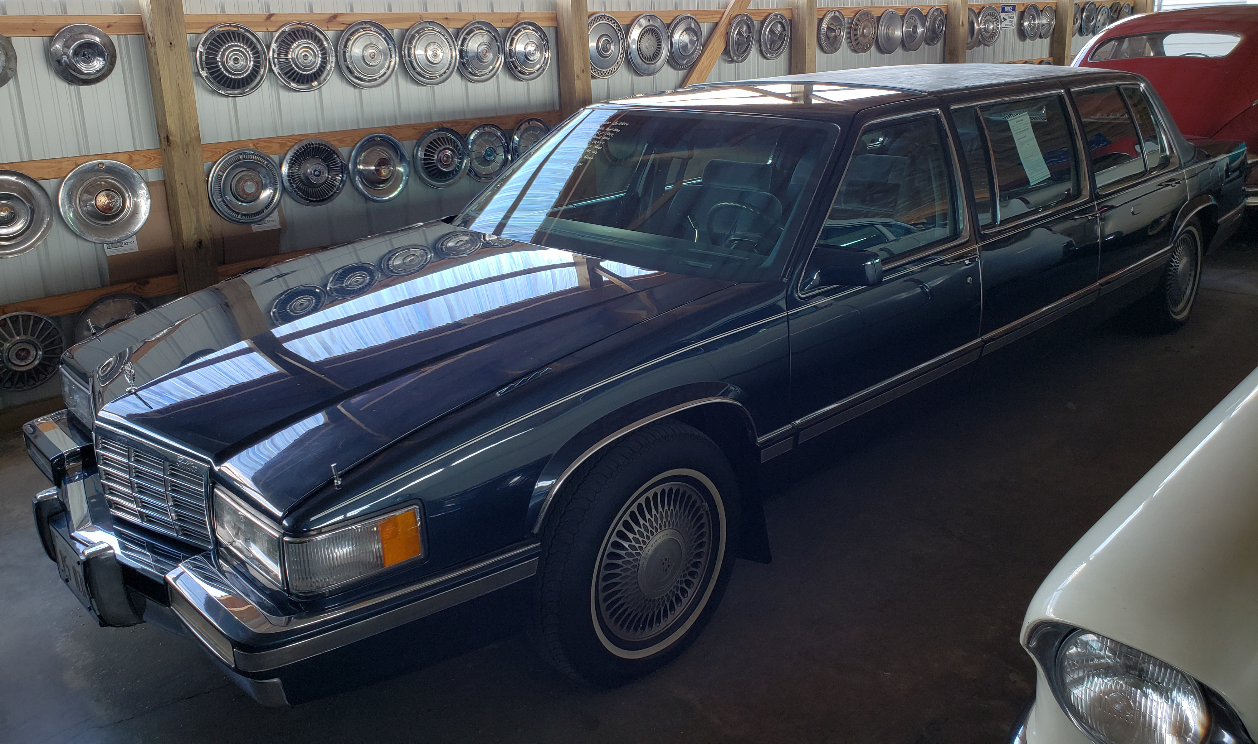 A 1992 Cadillac Sedan de Ville Limousine